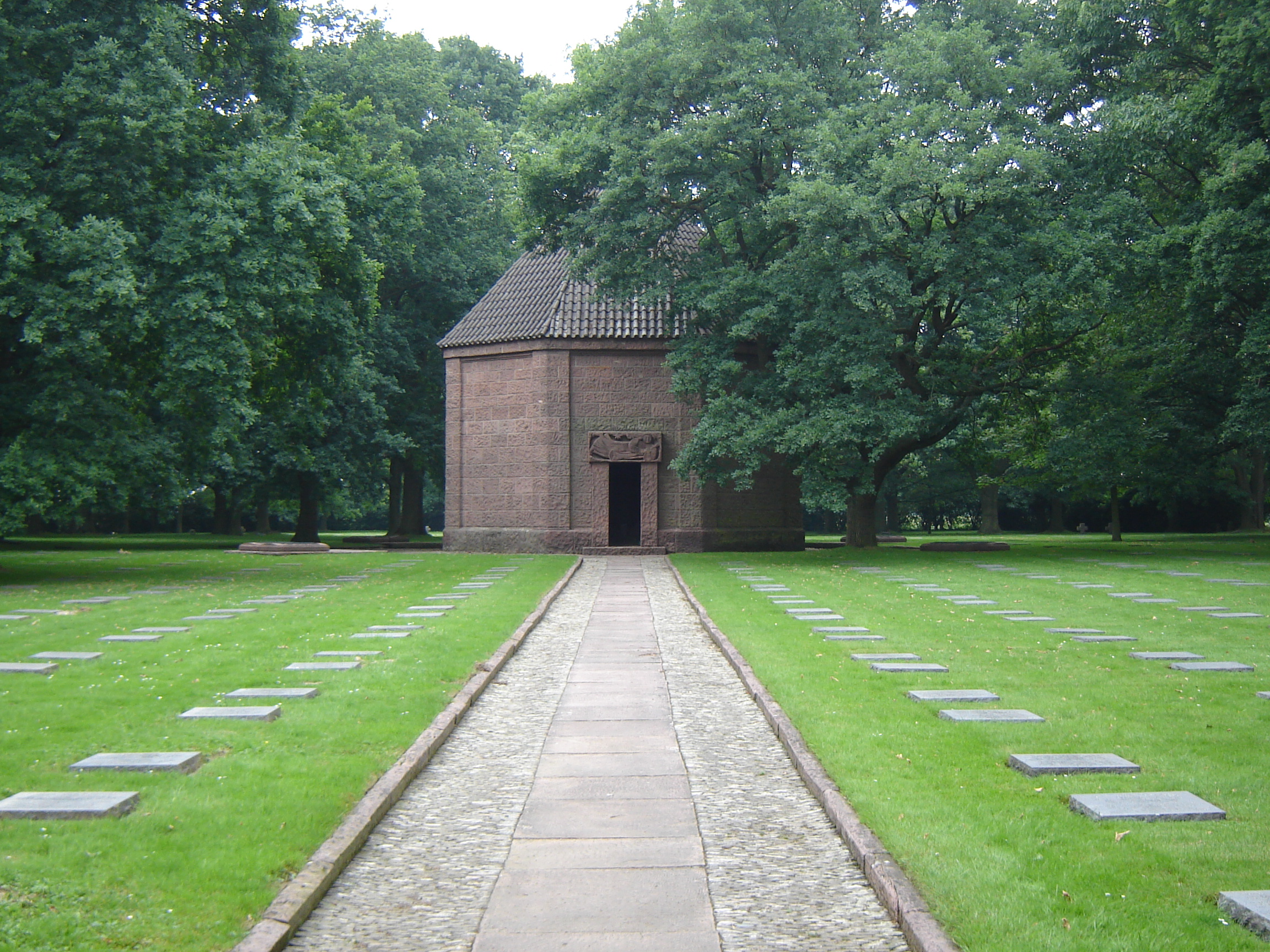 "Deutscher Soldatenfriedhof Menen" - German military cemetery in Menen, West-Flanders, Belgium